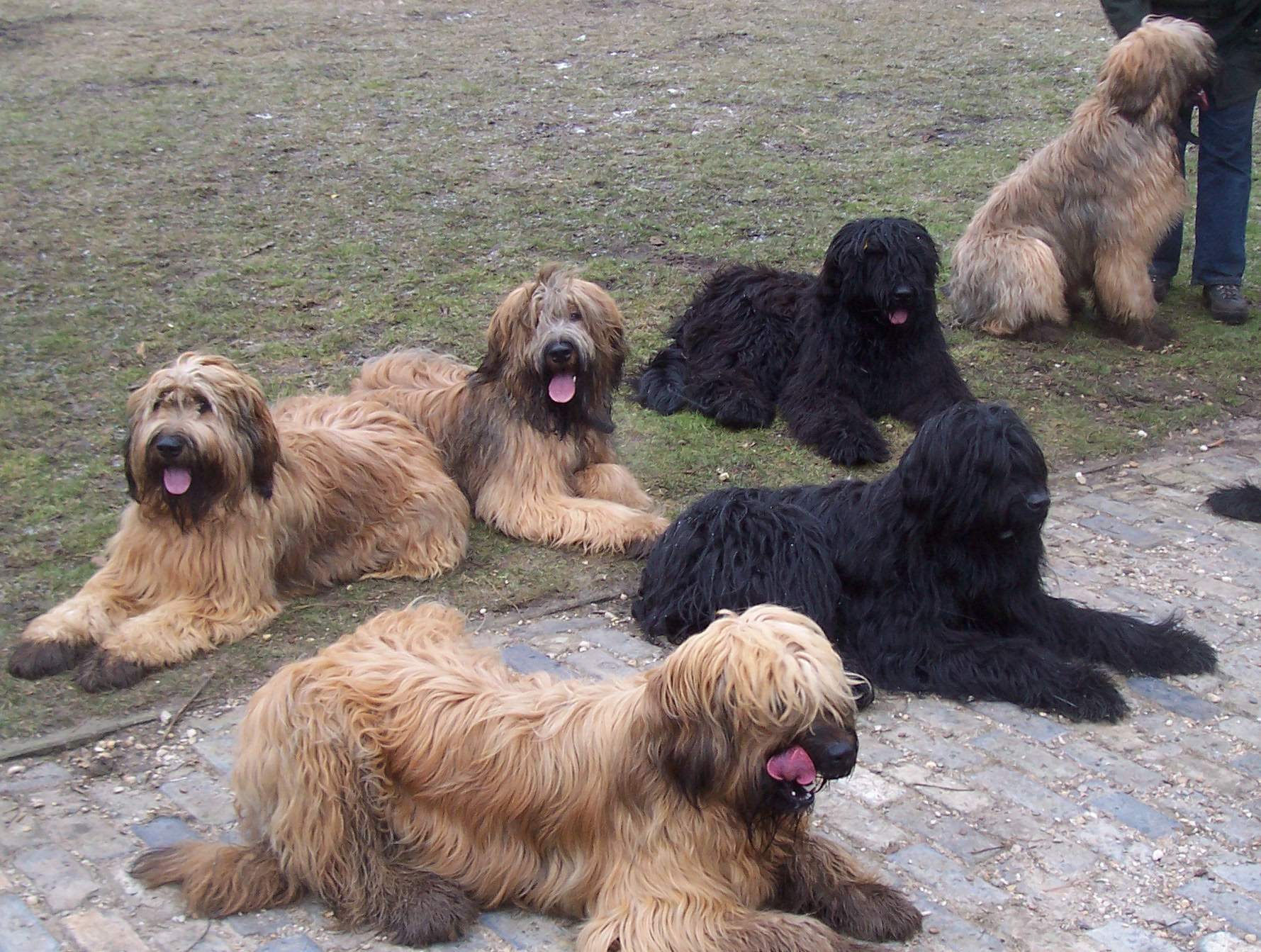 Briards reünie including Fiero 2005 foto Renate Gouda (loaded by Eric Gouda)